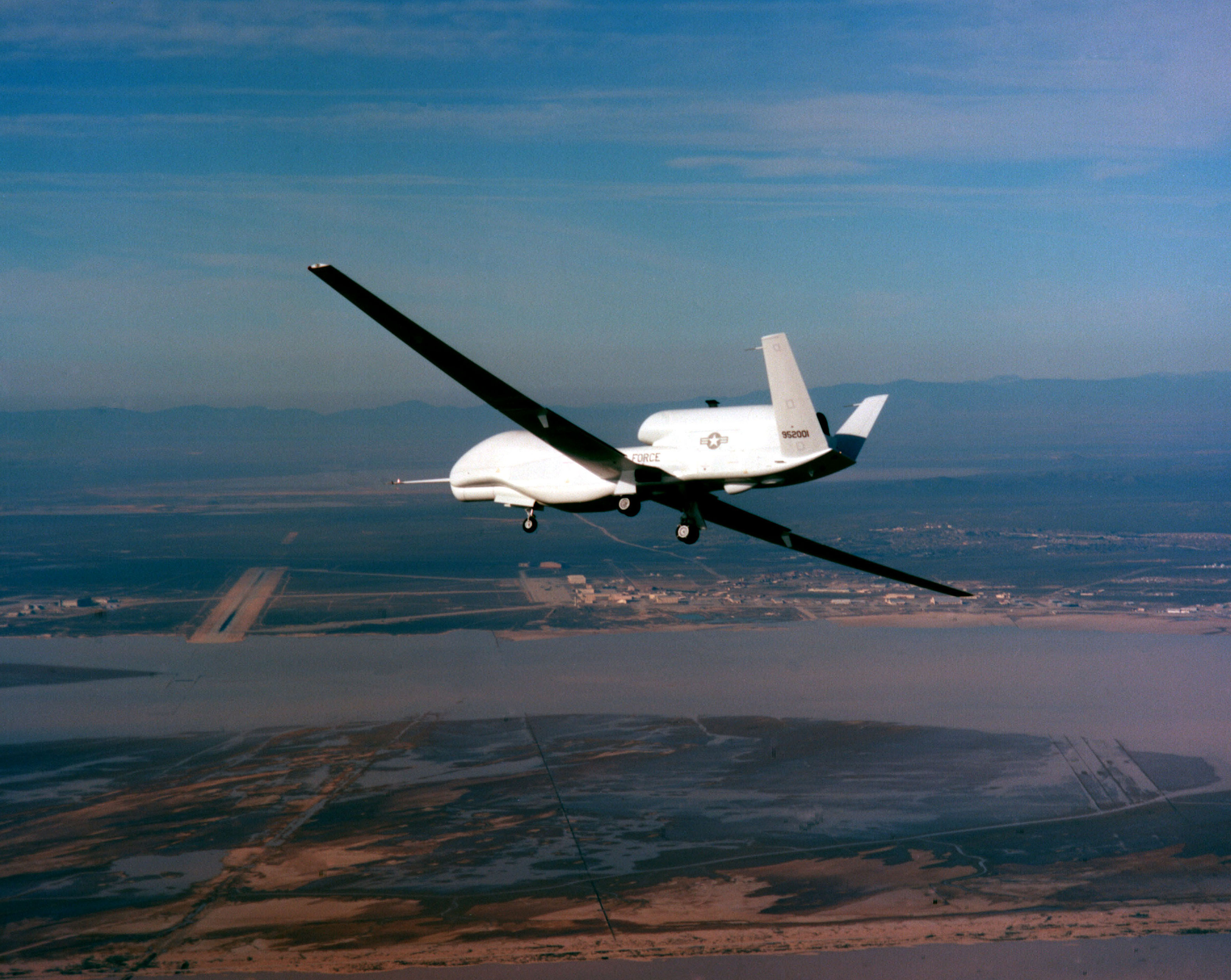 Global Hawk, the Department of Defense's newest reconnaissance aircraft, flies over Edwards Air Force Base, Calif., on Feb. 28, 1998, during its first flight. Global Hawk is a high-altitude, long-endurance, unmanned air vehicle designed to operate with a range of 13,500 nautical miles, at altitudes up to 65,000 feet and with an endurance of 40 hours. During a typical reconnaissance mission, the aircraft can fly 3,000 miles to an area of interest, remain on station for 24 hours, survey an area the size of the state of Illinois (40,000 square nautical miles), and then return 3,000 miles to its operating base. Sensors onboard the aircraft can provide near-real-time imagery of the area of interest to the battlefield commander via world-wide satellite communication links and the system's ground segment. DoD photo.